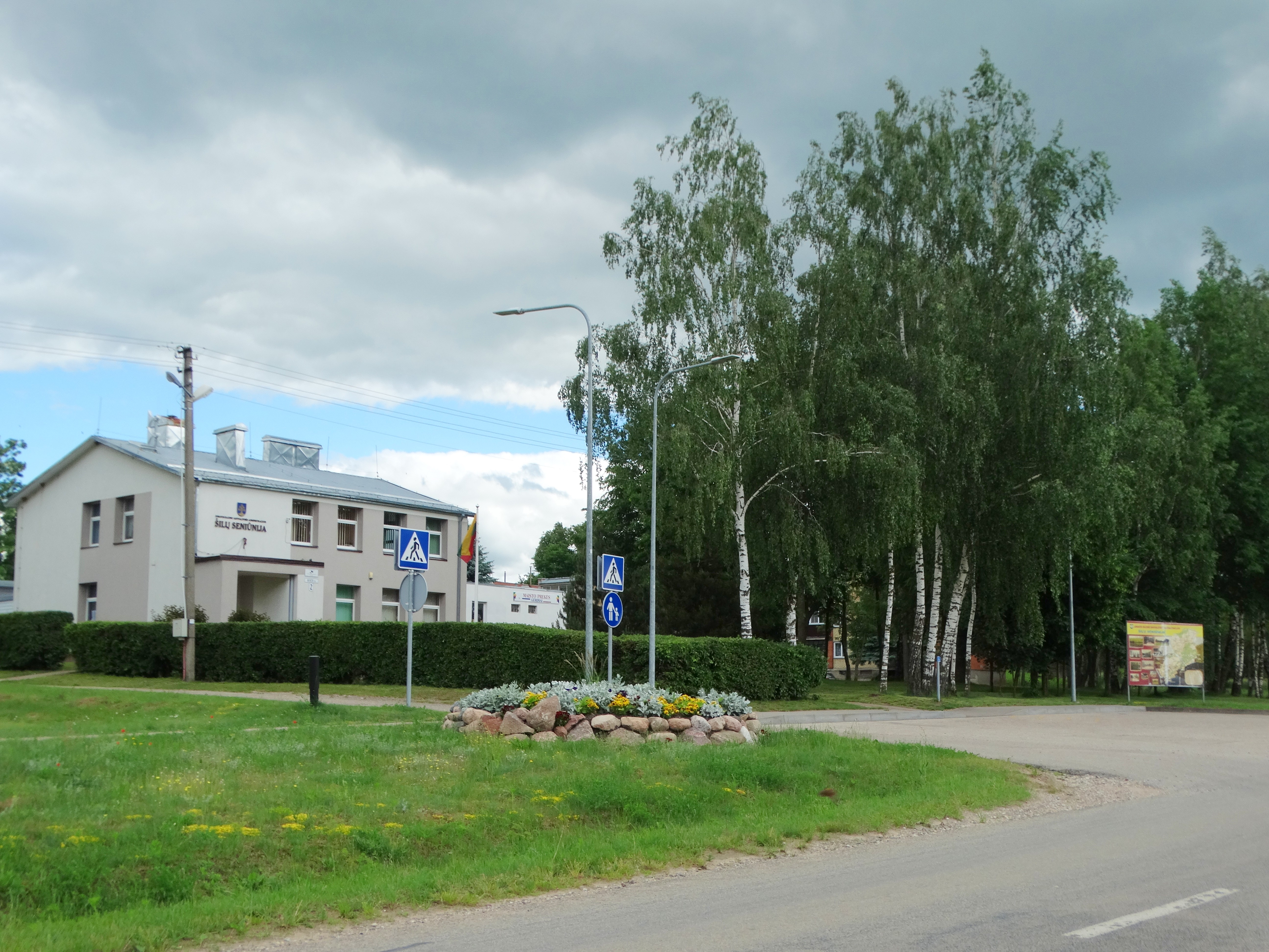 Šilai, Jonava district, Lithuania